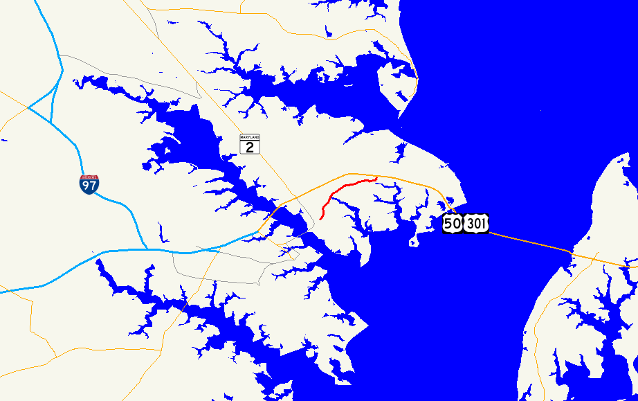 Map of Maryland Route 179